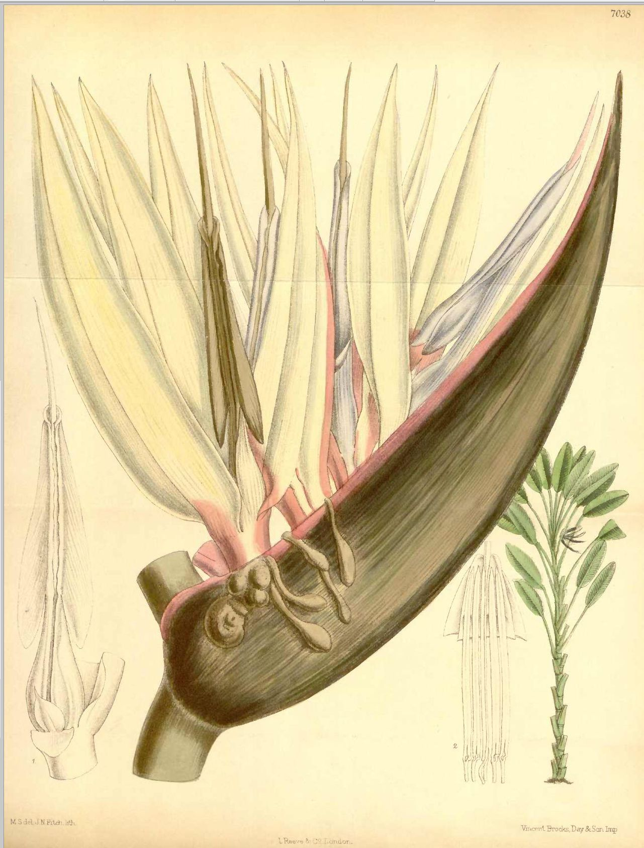 Strelitzia nicolai Regel & K.Koch, Plate 7038 by Matilda Smith